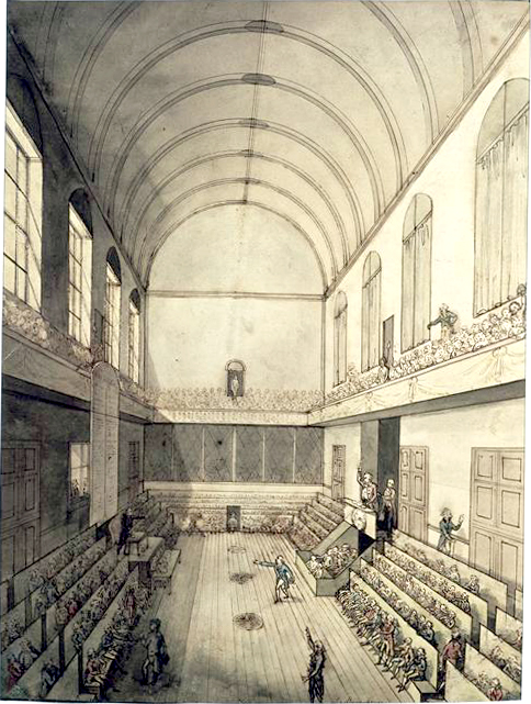 The Salle du Manège in Paris, France, during the French Revolution.